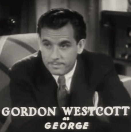 Gordon Westcott in Murder in the Clouds (1934) - cropped screenshot